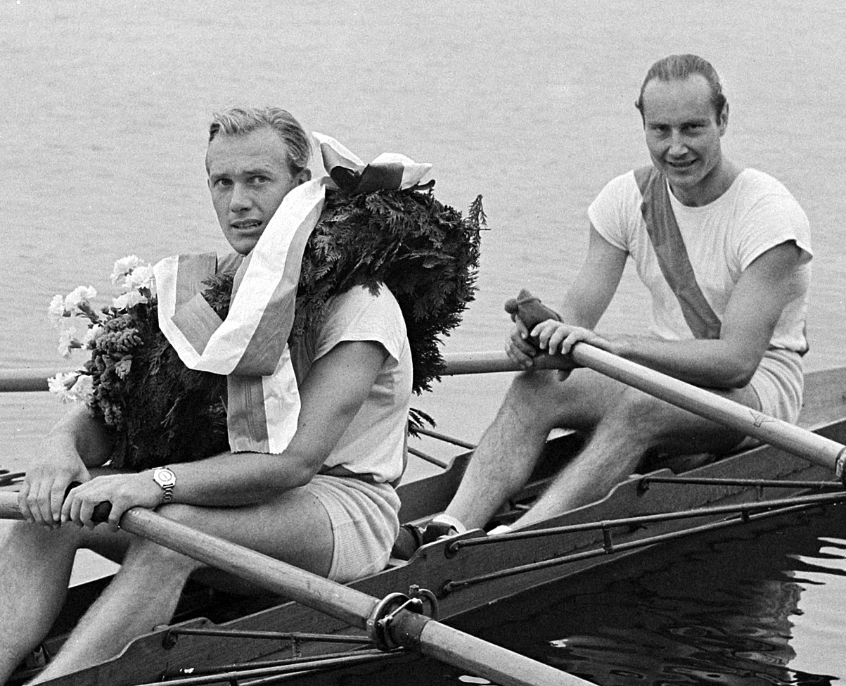 European Rowing Championships at Bosbaan in 1949, winner of the double sculls were the Danes Larsen and Parsner.